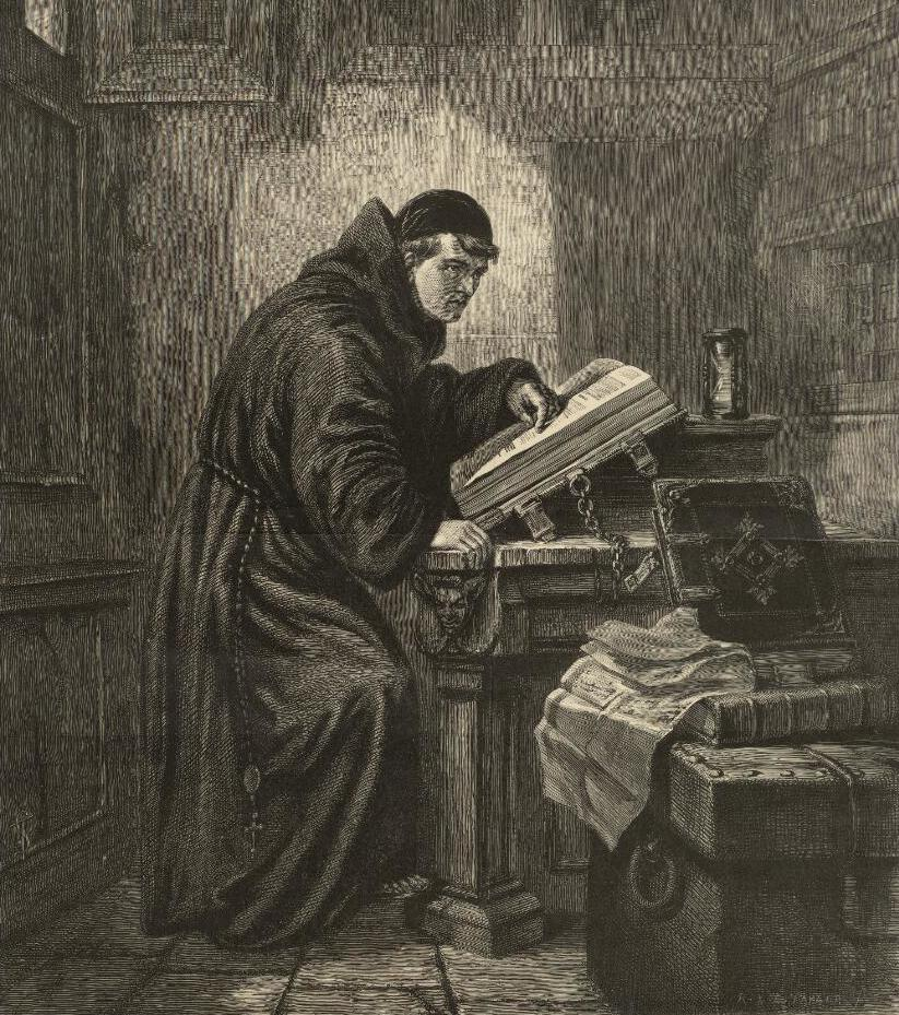 A portrait from the Welsh Portrait Collection at the National Library of Wales. Depicted person: Martin Luther – Saxon priest, monk and theologian, seminal figure in Protestant Reformation